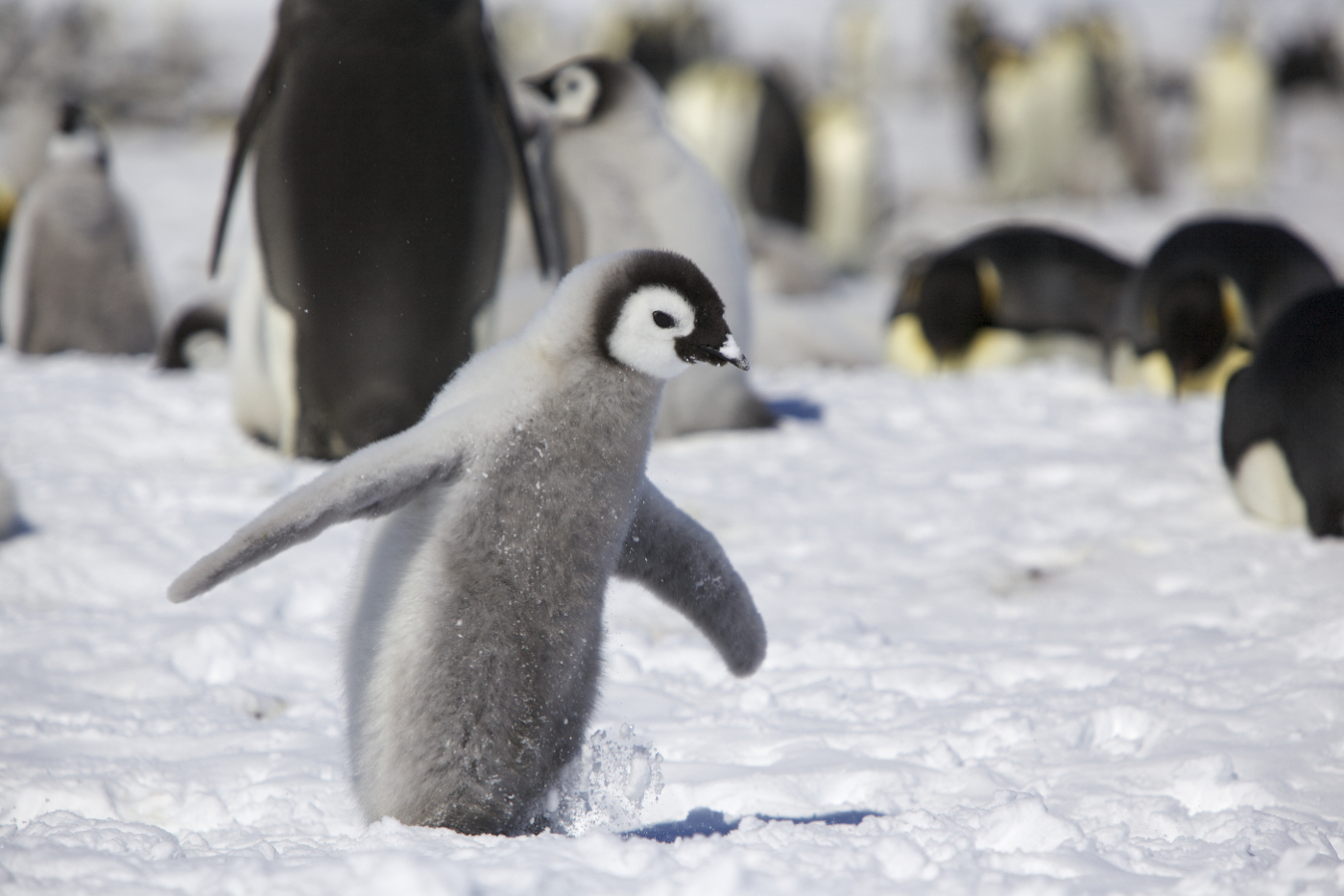 A juvenile Emperor Penguin on Snow Hill Island, Antarctica.